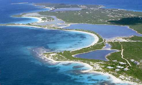 South coast of Anguilla